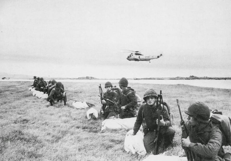 Argentine Marines during Operation Rosario. A Sea King can be seen on the background.